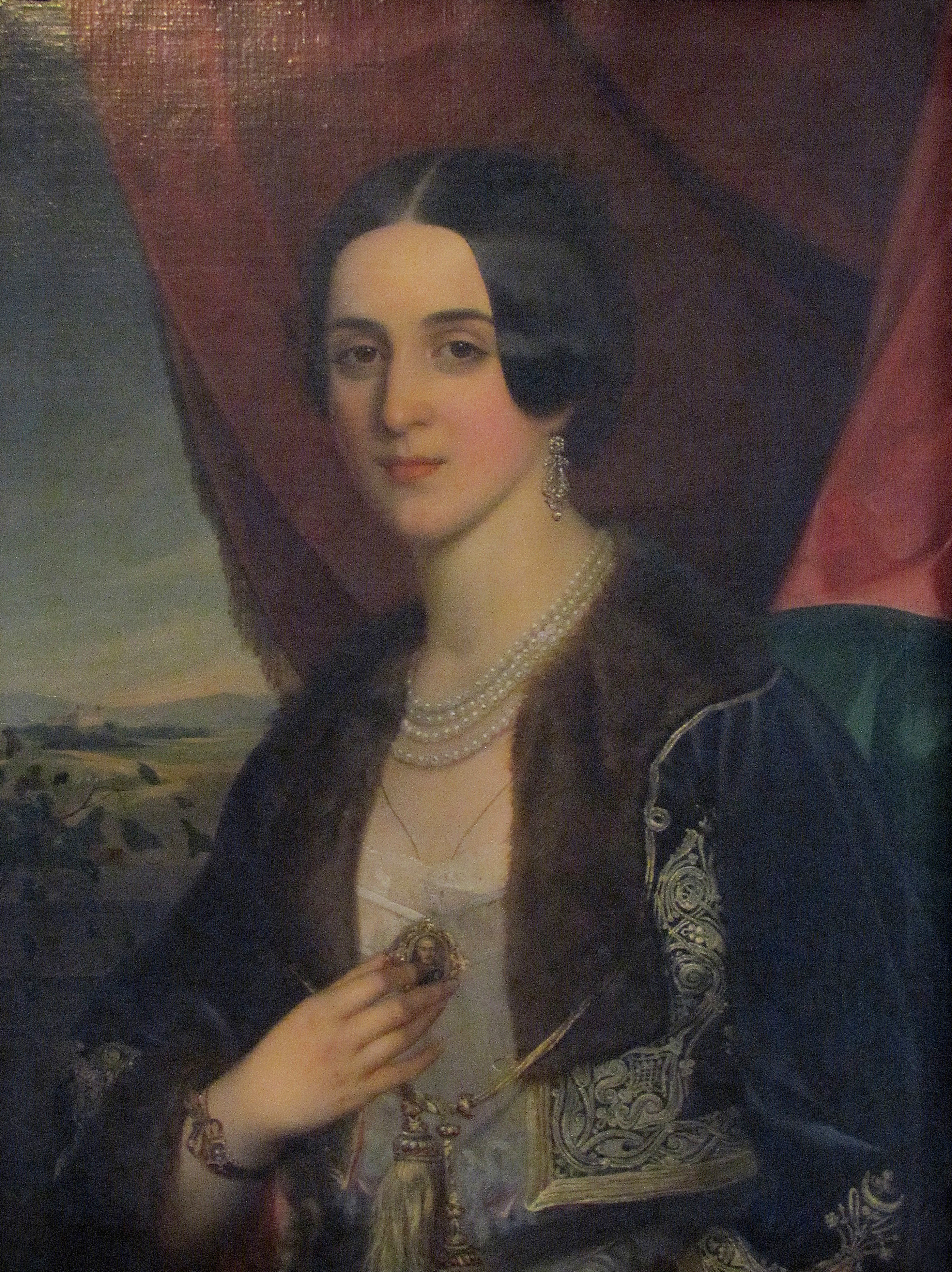 Miklos Barabas, Savka Obrenović, 1845, Princess Ljubica's Residence